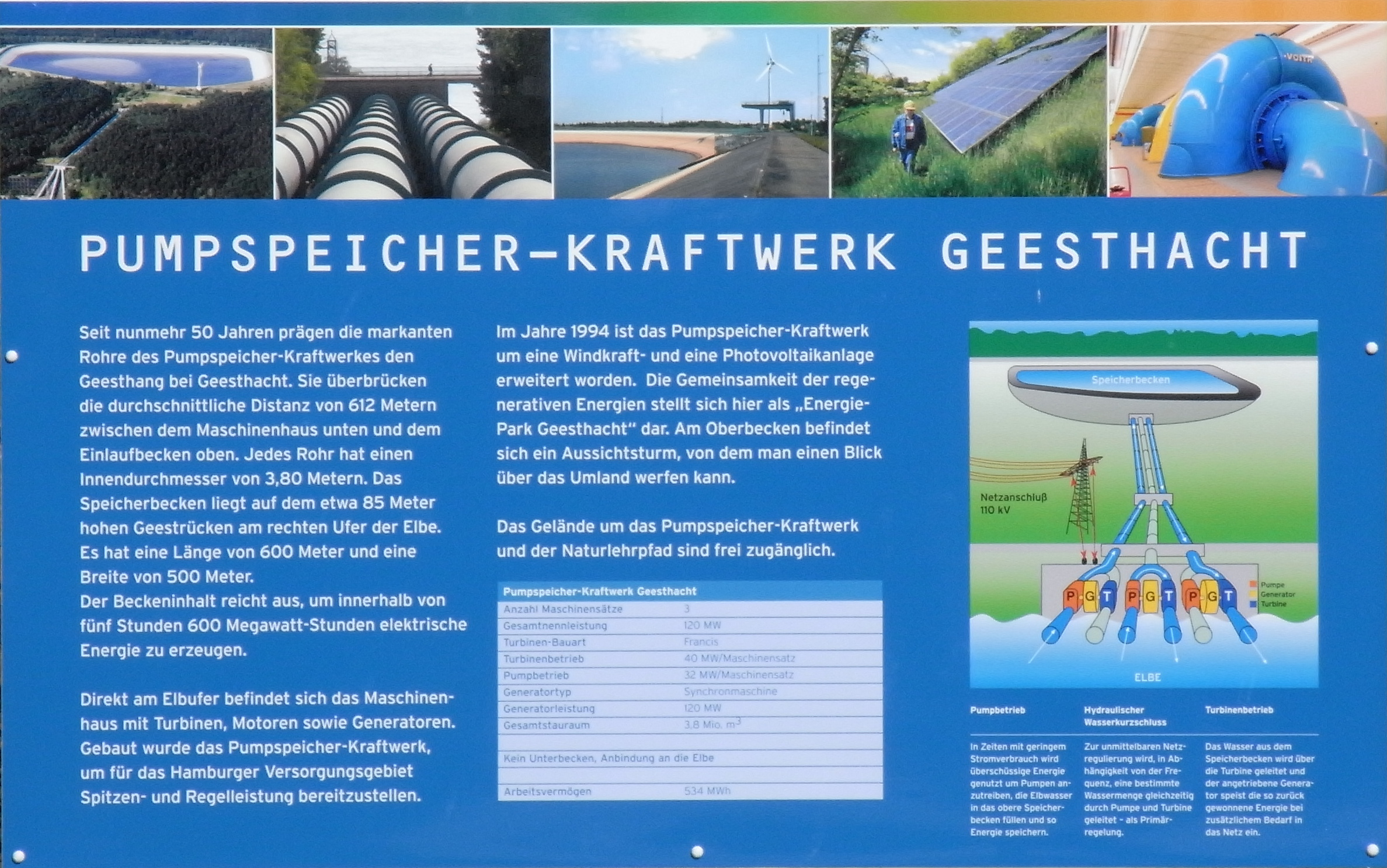 Signboard (in German) of the pumped-storage hydroelectricity plant in Geeshacht, Schleswig-Holstein, Germany.